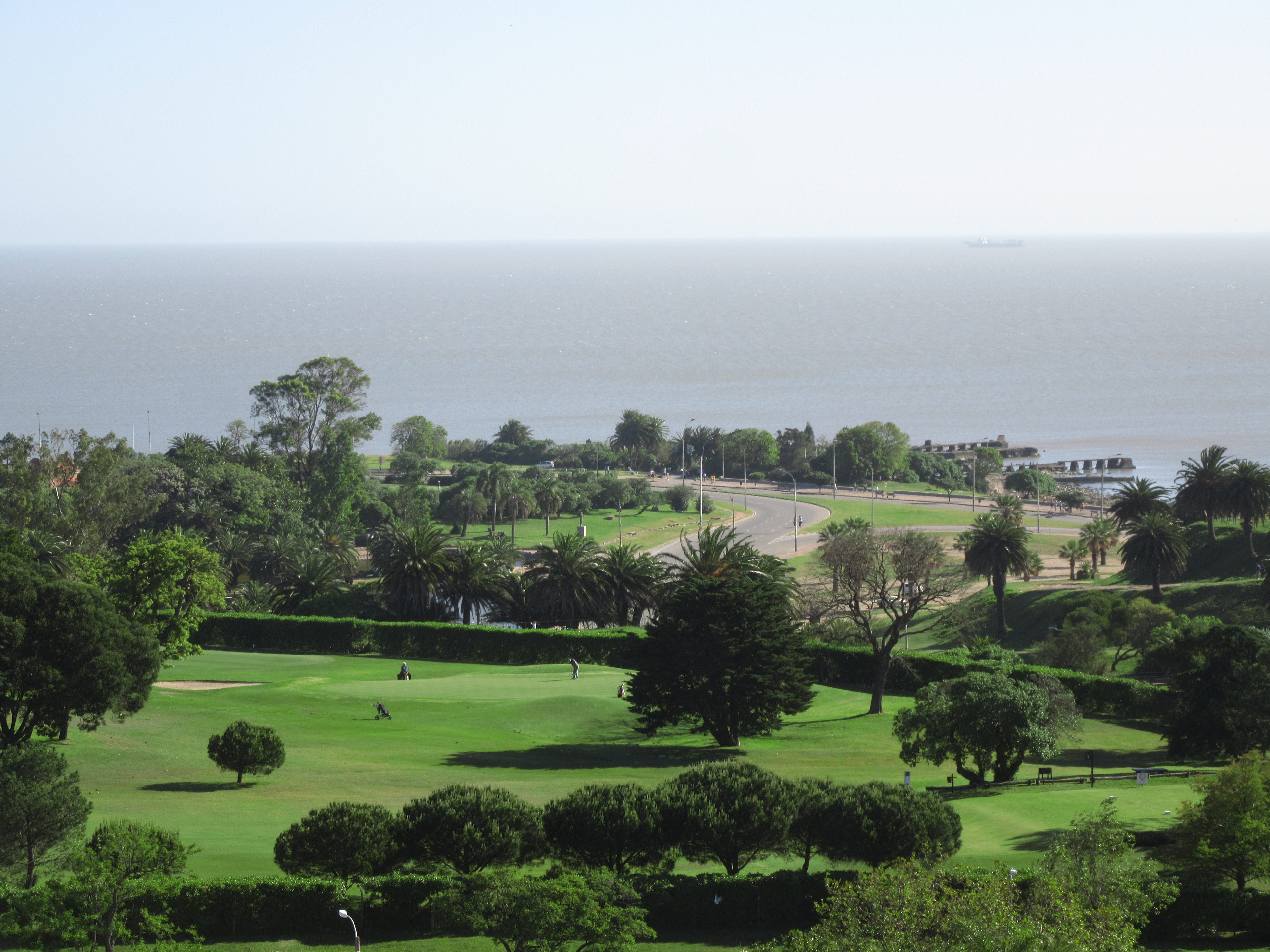 Club de Golf en Punta Carretas. Foto tomada desde la Facultad de Ingeniería de Montevideo.